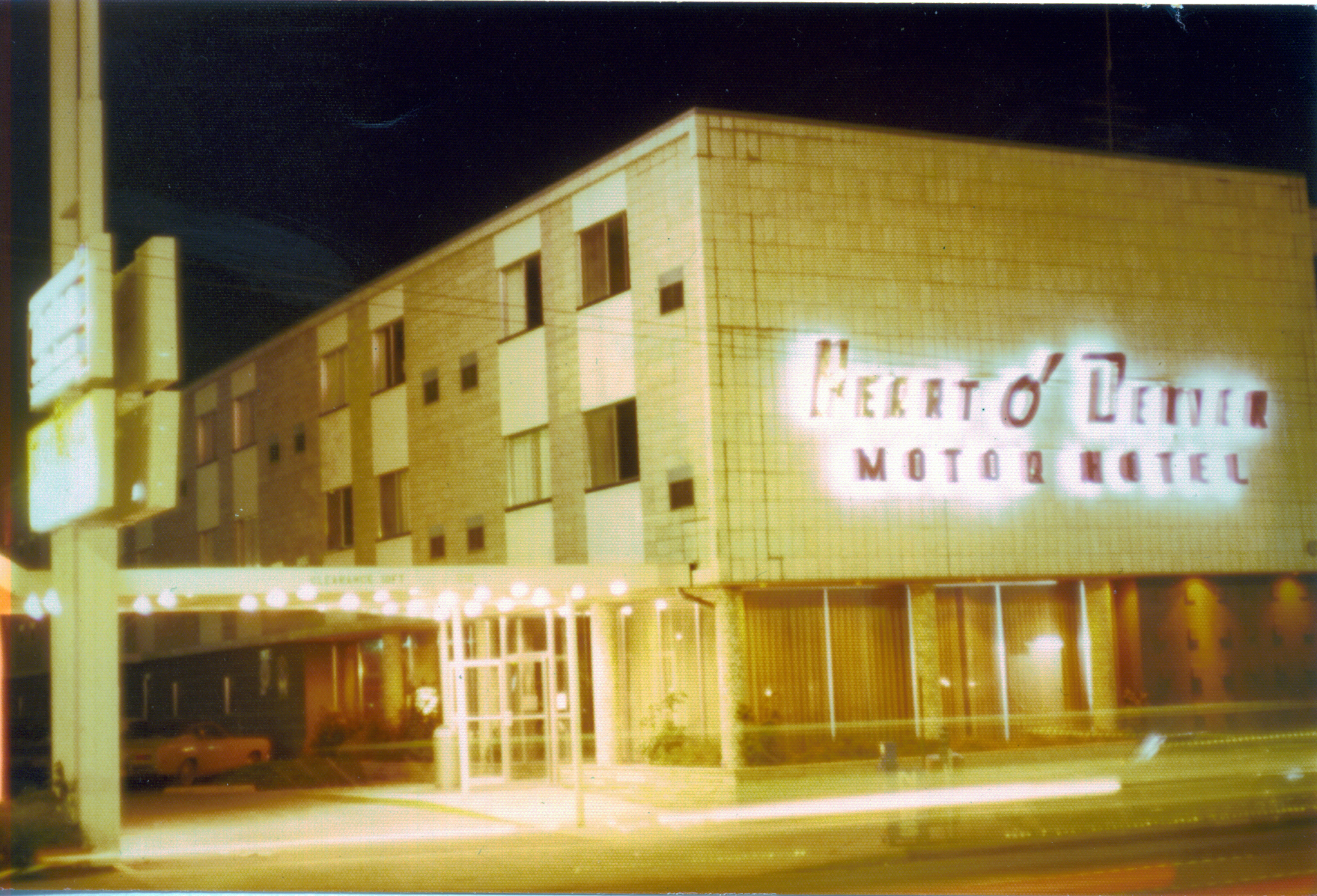 We stayed here during our visit to see Pete Owens who was in training at nearby Lowry AFB. It had a popular Tiki theme restaurant and bar. The location was 1100 E Colfax Ave Denver